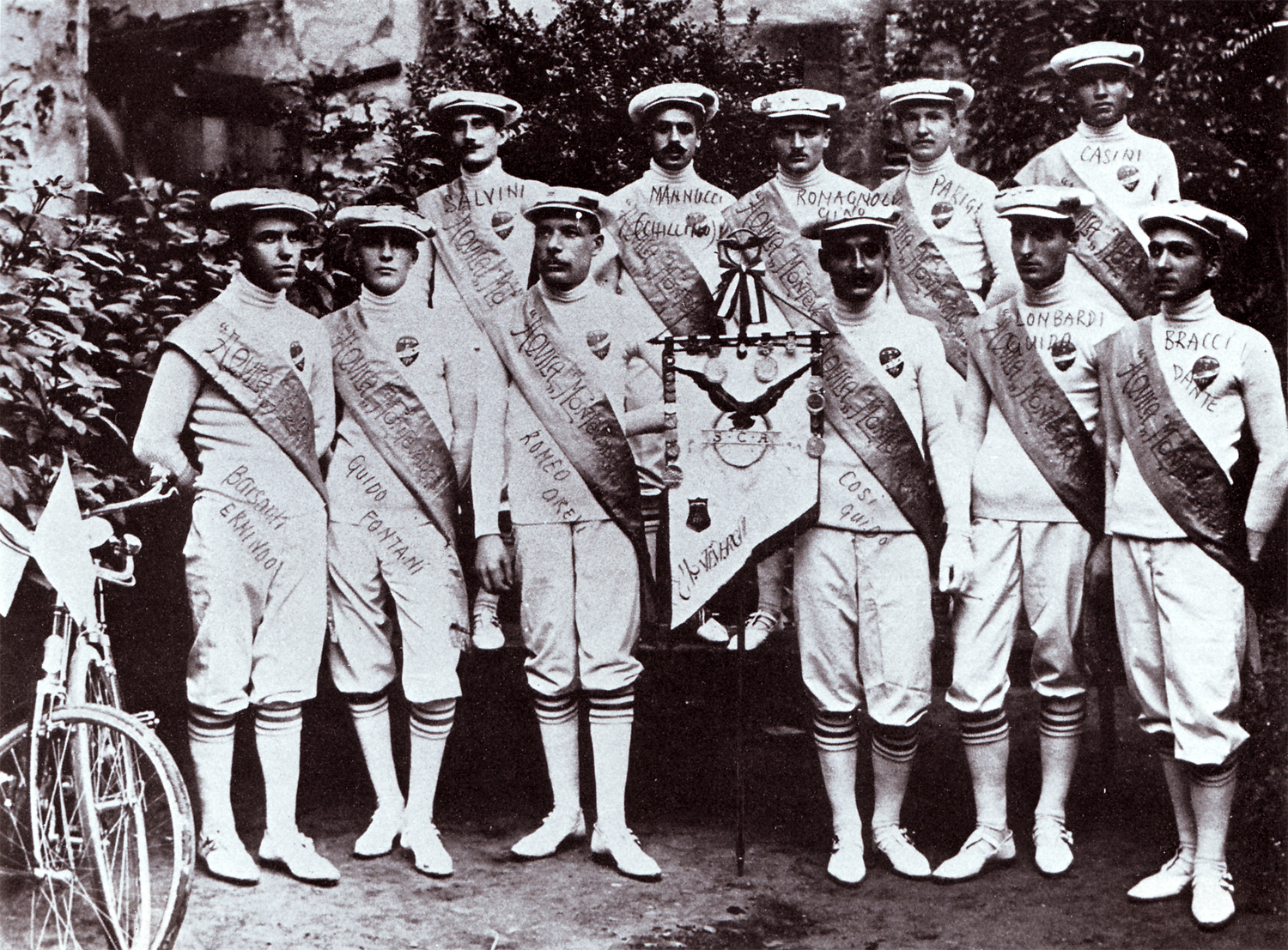 Sport cyclists of the Aquila Society of Montevarchi